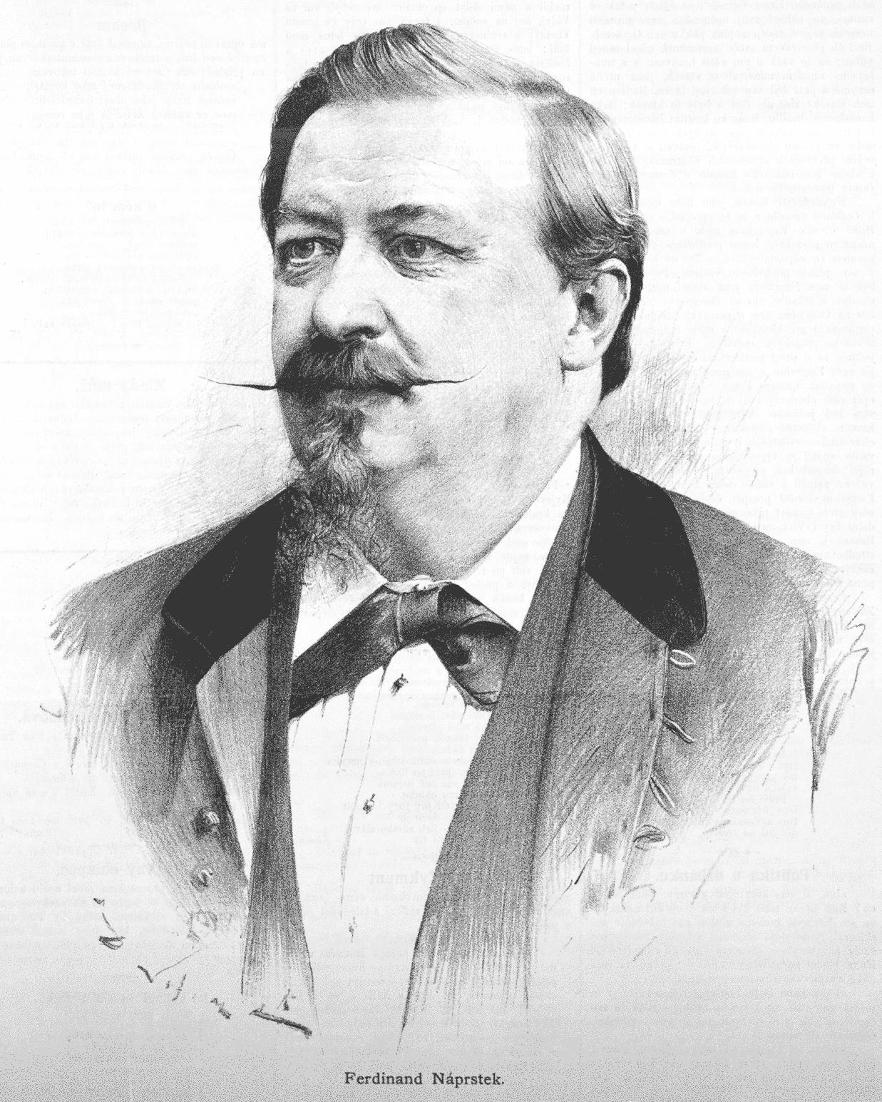 Portrait of Ferdinand Pravoslav Náprstek (1824 - 1887), sponsor of Czech theatre and music